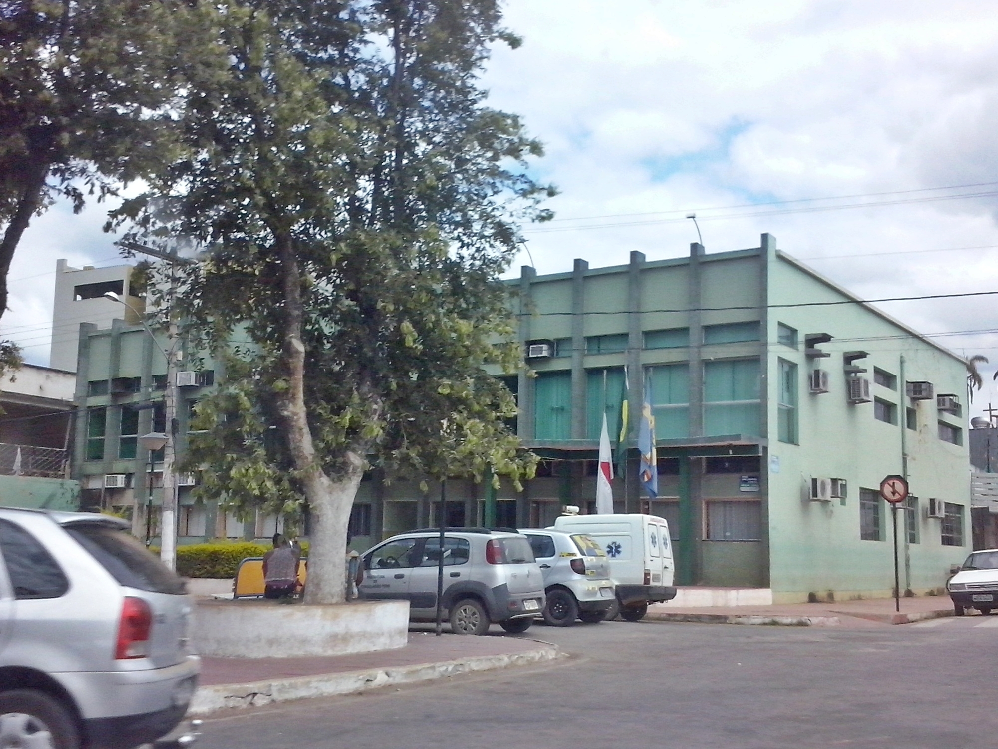 City Hall of Conselheiro Pena, Minas Gerais, Brazil.